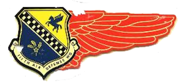 111th Air Defense Wing - Emblem